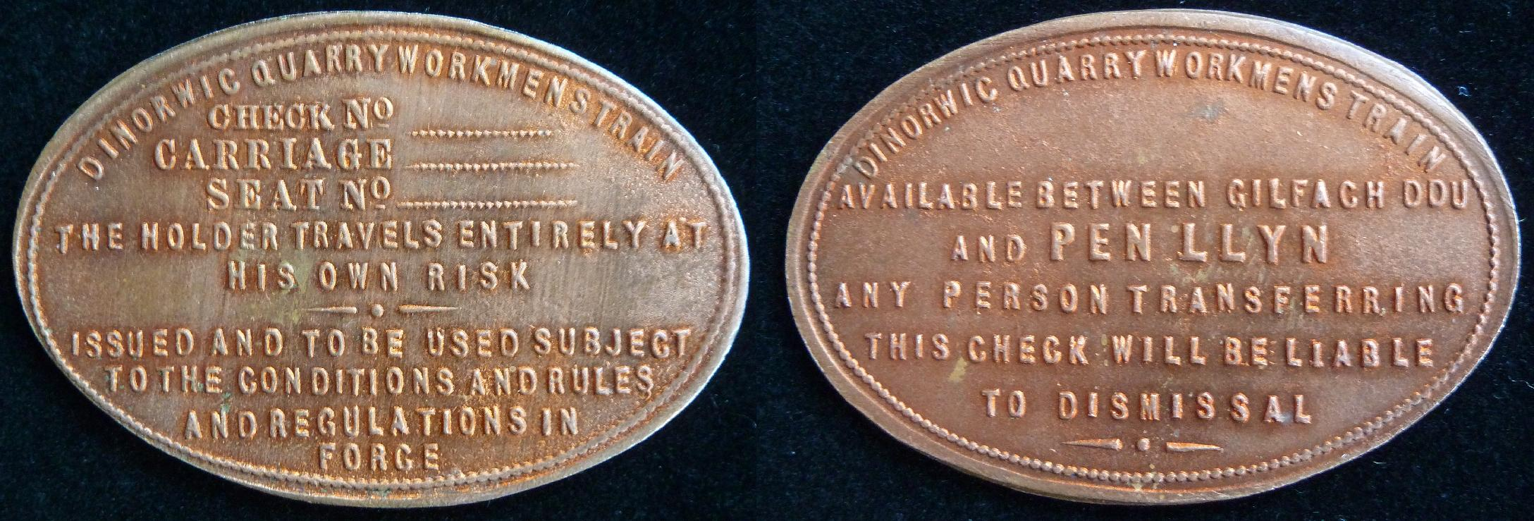 Padarn Railway workman's token